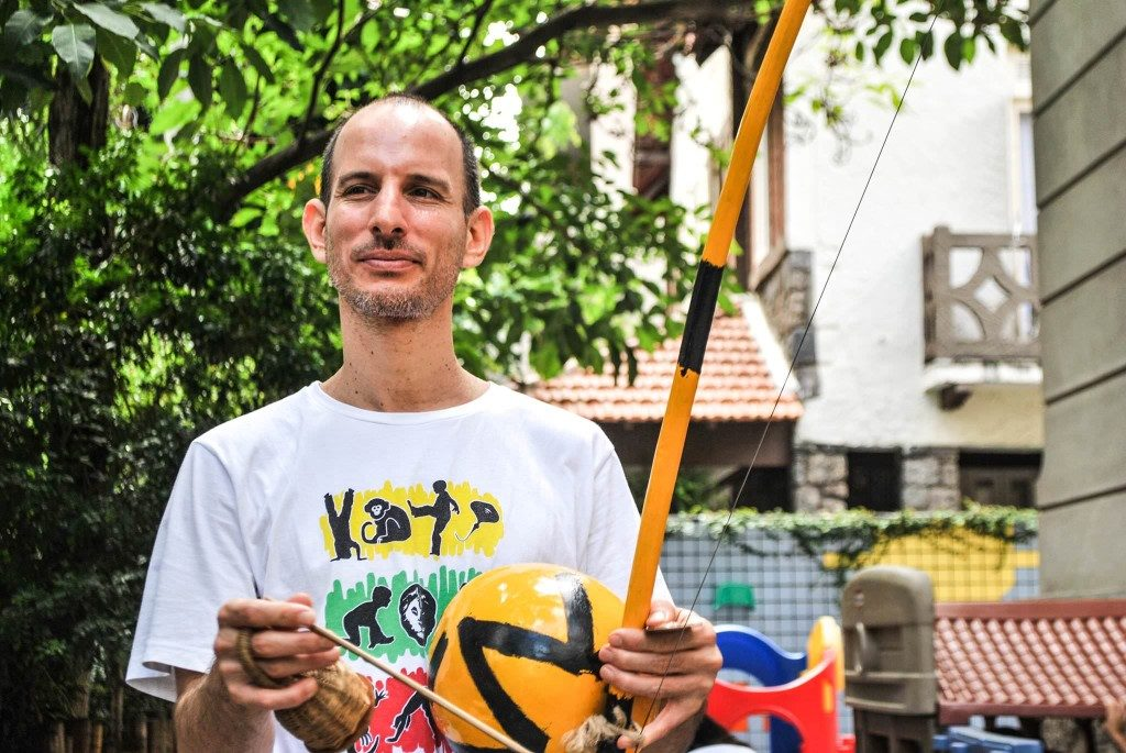 A picture of Mestre Ferradura playing Berimbau.